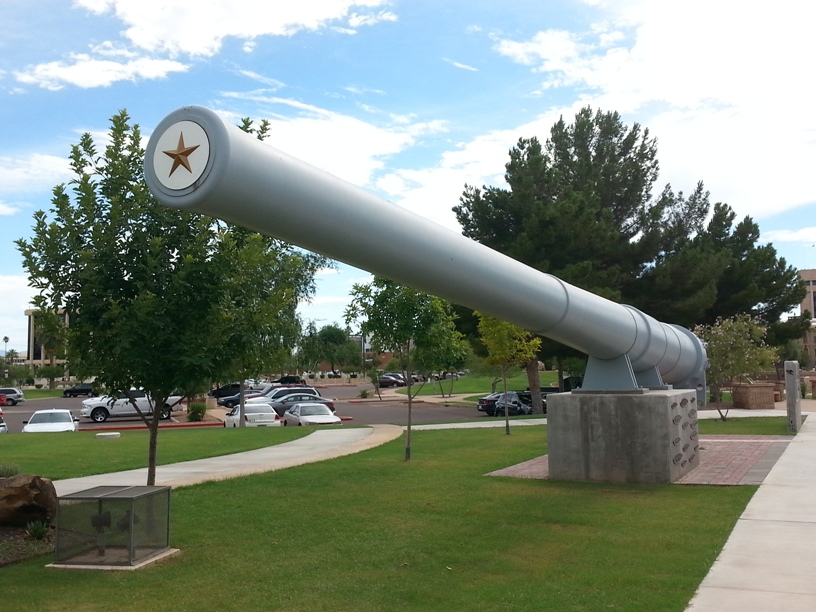 14-inch gun formerly on USS Arizona, displayed at Wesley Bolin Memorial Plaza near the Arizona State House, Phoenix, Arizona